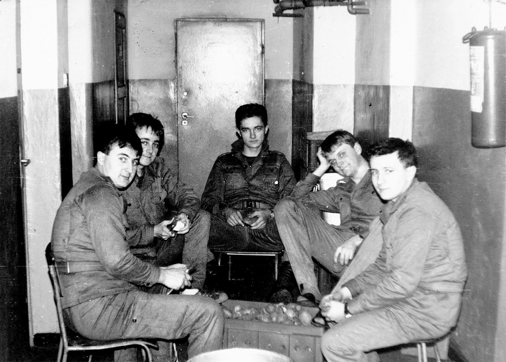 Border Protection Forces in Jastarnia